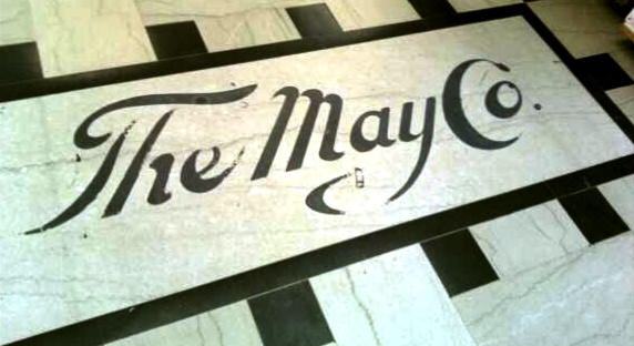 The May Company terrazzo at the entrance of the company's flagship department store in downtown Los Angeles, California on 8th Street and Broadway Street. The building, located at 801 South Broadway Street, was originally erected by Alfred F. Rosenheim in 1906 to house Hamburger's Department Store. [1] The May Company moved its headquarters to the building after acquiring Hamburger's in 1923. [2] The photograph was taken with an LG EnV2 mobile phone camera and edited (for sharpness, brightness, color balance and contrast) using ArcSoft PhotoStudio 5.5